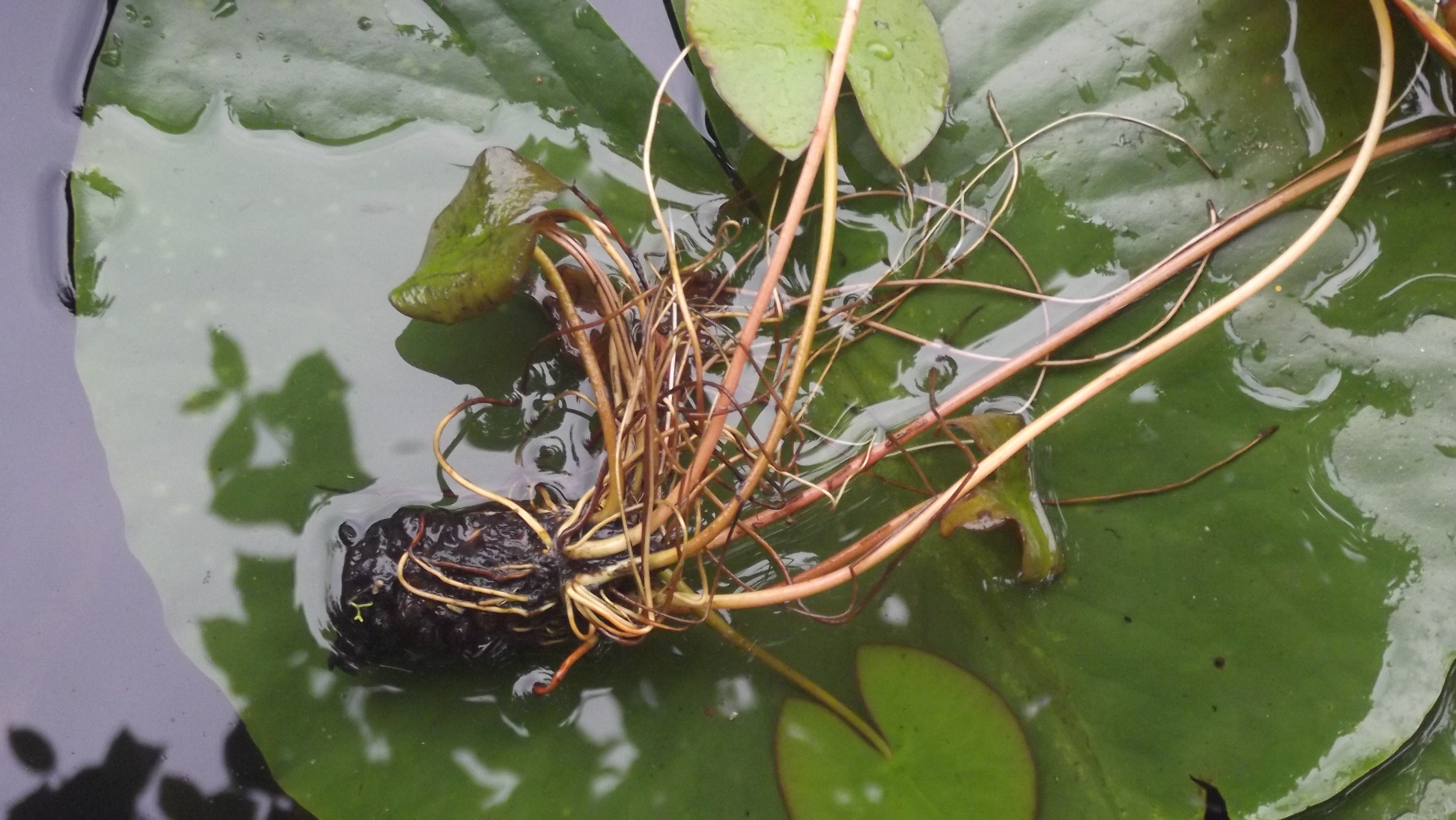 Rhizome of young plants Nymphaea alba